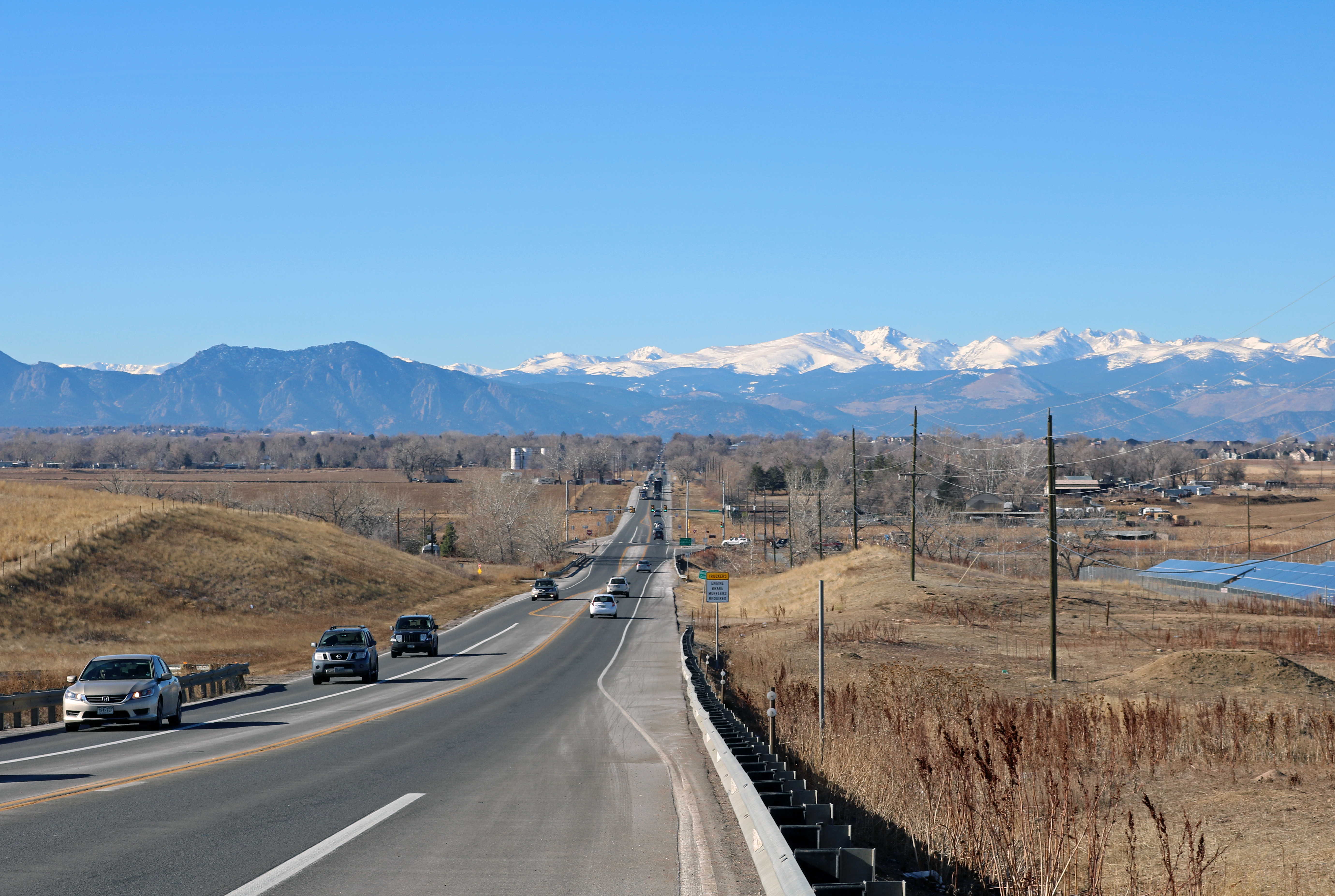 A view of Baseline Road in Colorado. The view is to the west, from the intersection of Baseline Road and Airport Road in Erie, Colorado.